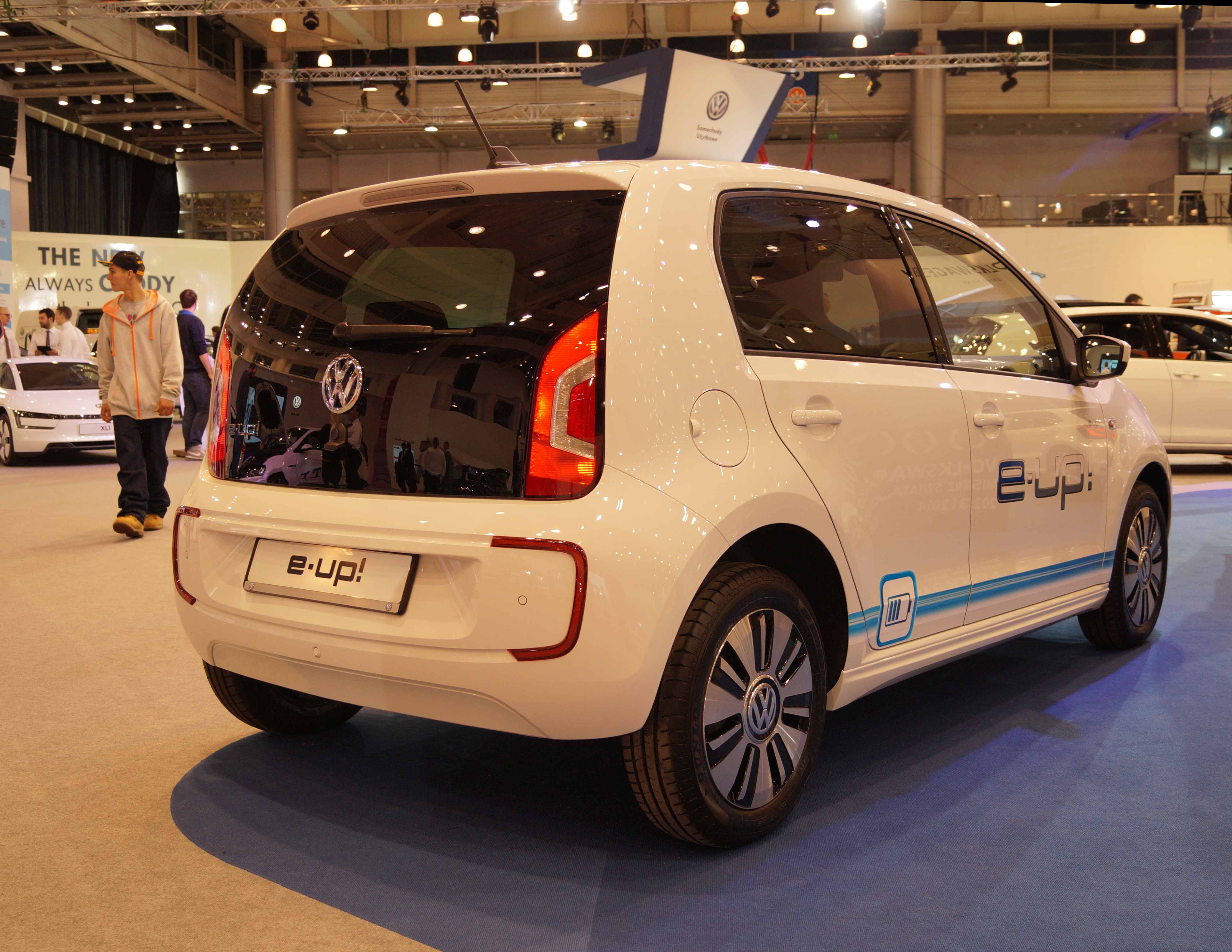 The making of this document was supported by Wikimedia Polska Association, within Wikigrant no. WG 2015-19. English | polski | +/− Tył Volkswagena e-up! na Motor Show Poznań 2015